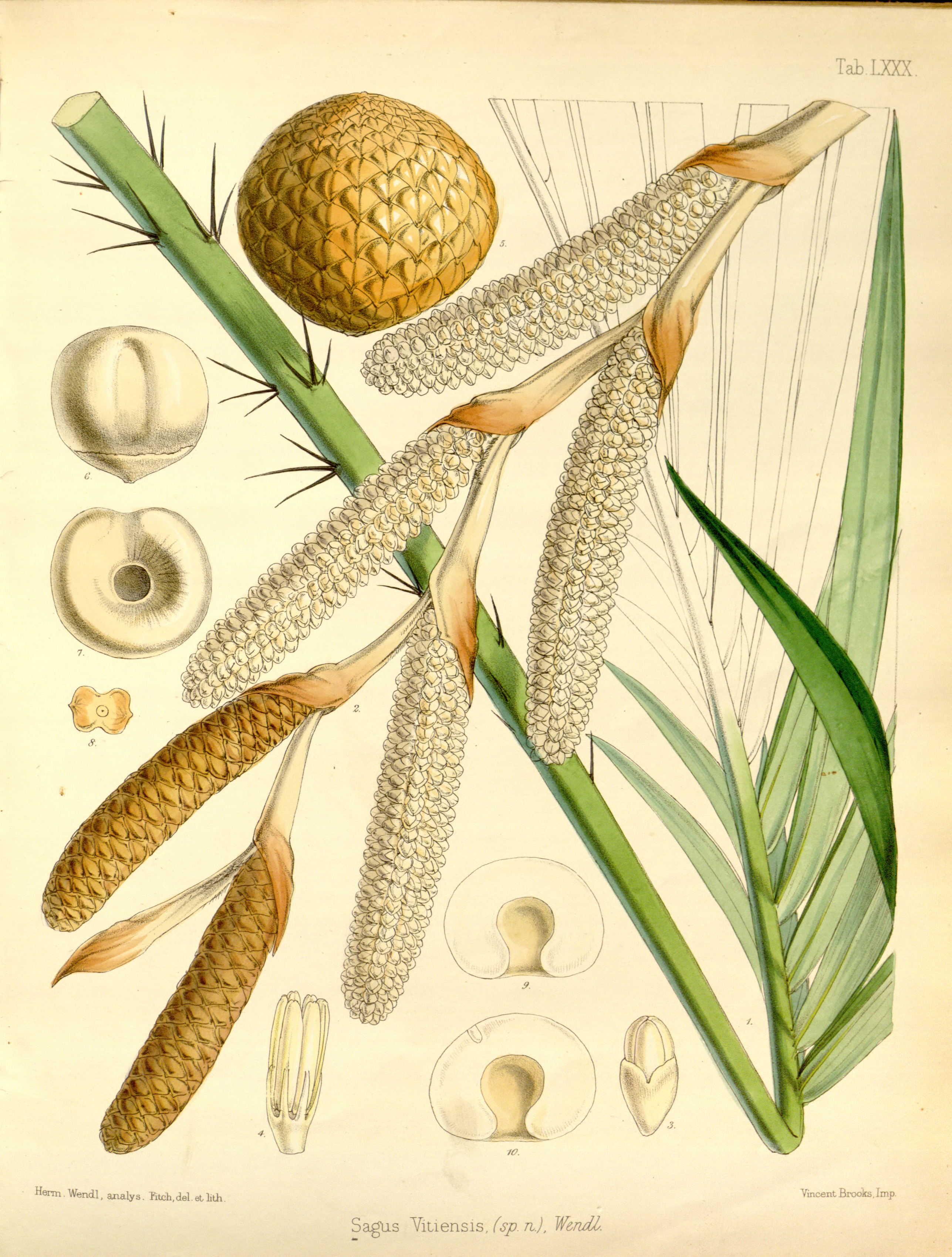 Illustration of Sagus vitiense (now known as Metroxylon vitiense) by Walter Fitch from Flora Vitiensis: A description of the plants of the Viti or Fiji Islands, with an account of their history, uses, and properties (vol. 2) (p.166) by Berthold Carl Seemann (1867-1873).